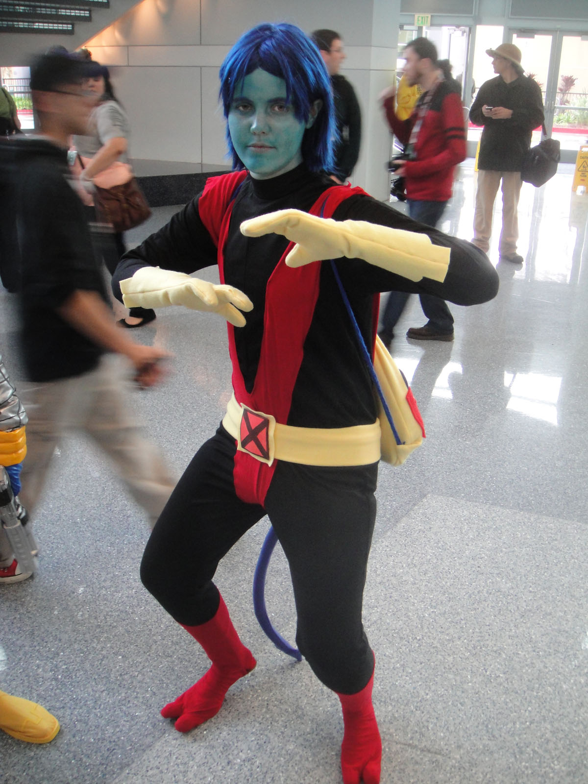 Cosplay of Nightcrawler, X-Men Evolution character, WonderCon 2012